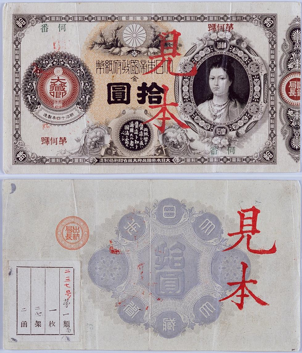 Remodeling bill, 10 yen.